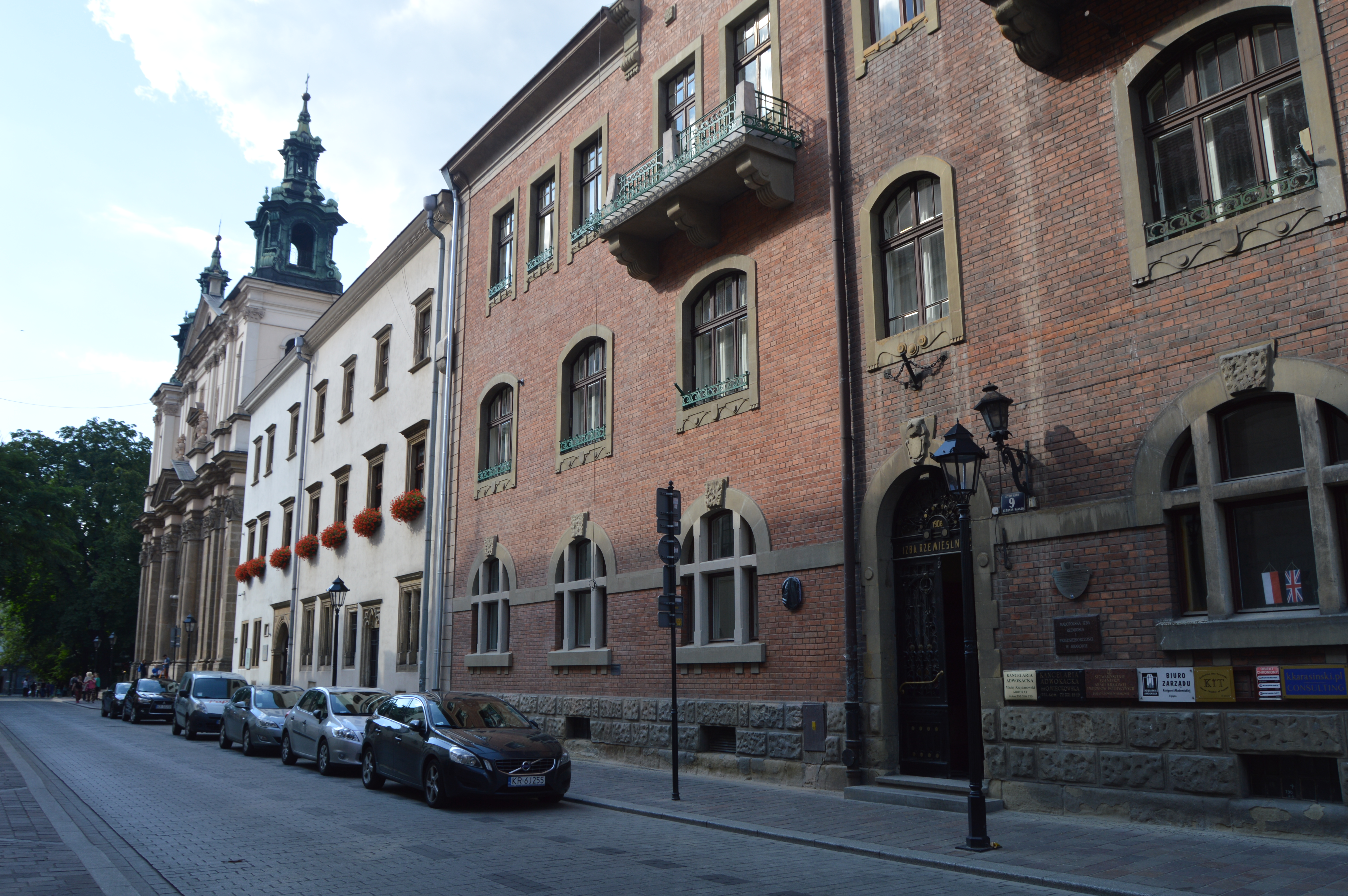 View towards St Anne's Church and Planty Park in Kraków.